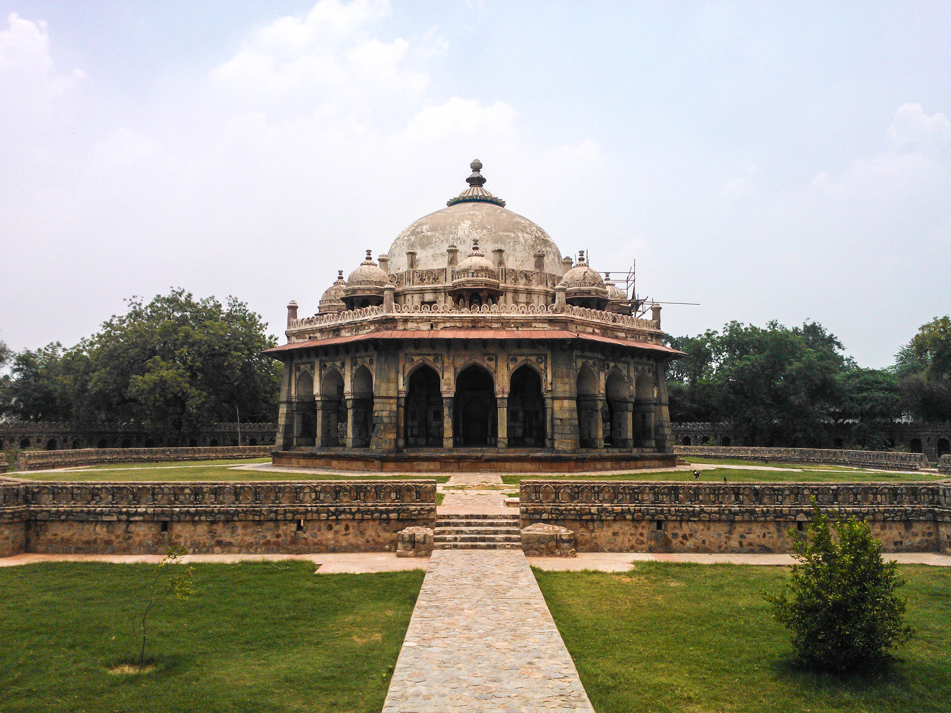 Tomb and Mosque of Isa Khan